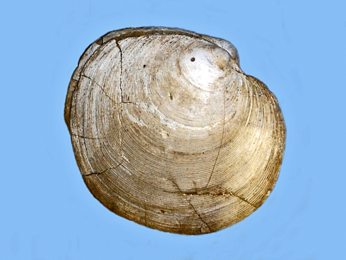 Fossil shell of Dosinia orbicularis from Pliocene of Italy, on display at the Museo Paleontologico Giulio Maini, Ovada